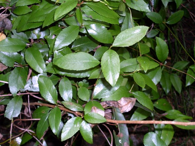 Aphanopetalum resinosum at Brush Farm, Eastwood